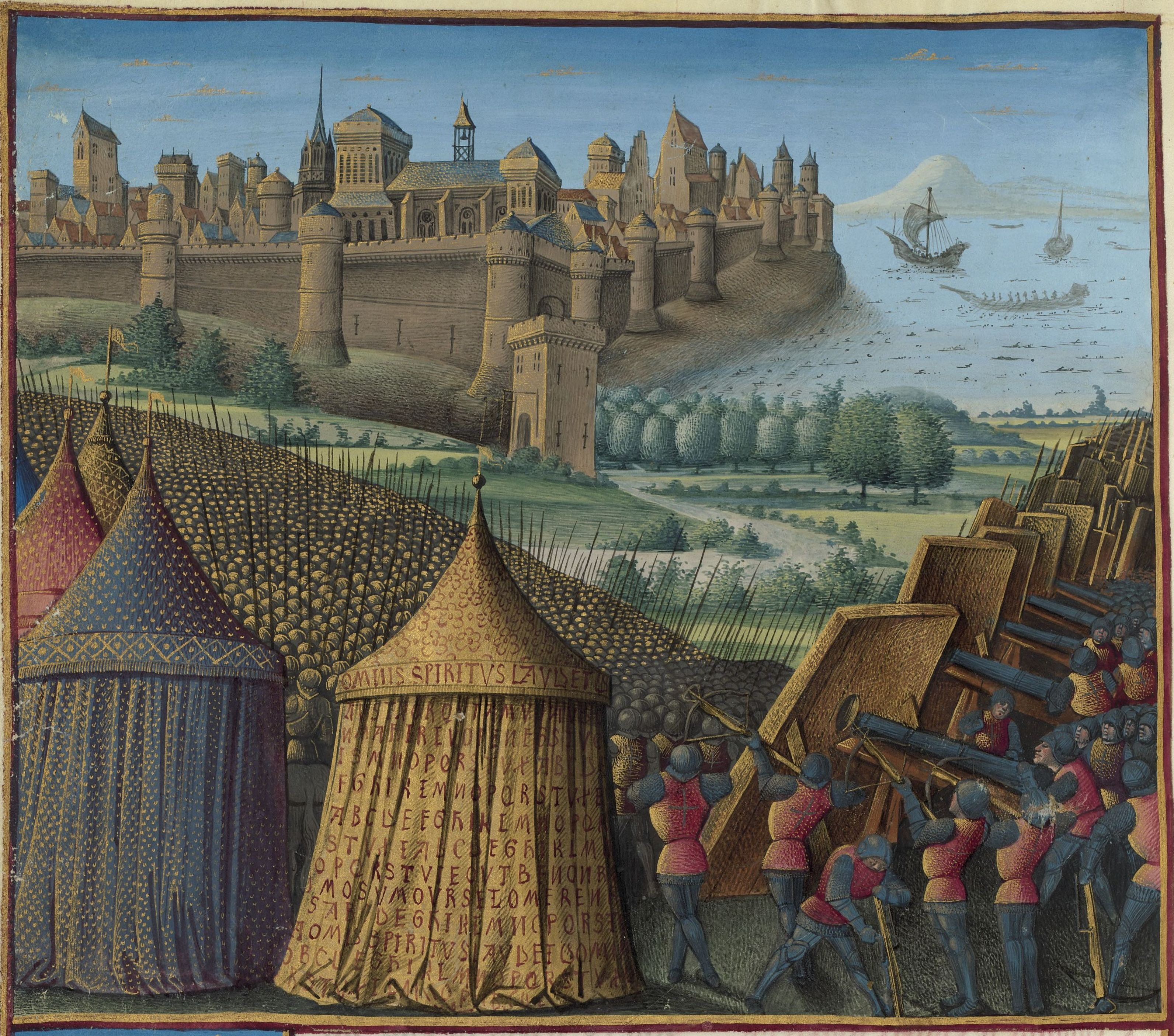 The siege of Ascalon by King Baldwin III of Jerusalem FROM THE BOOK: Les Passages d'outremer faits par les Français contre les Turcs depuis Charlemagne jusqu'en 1462